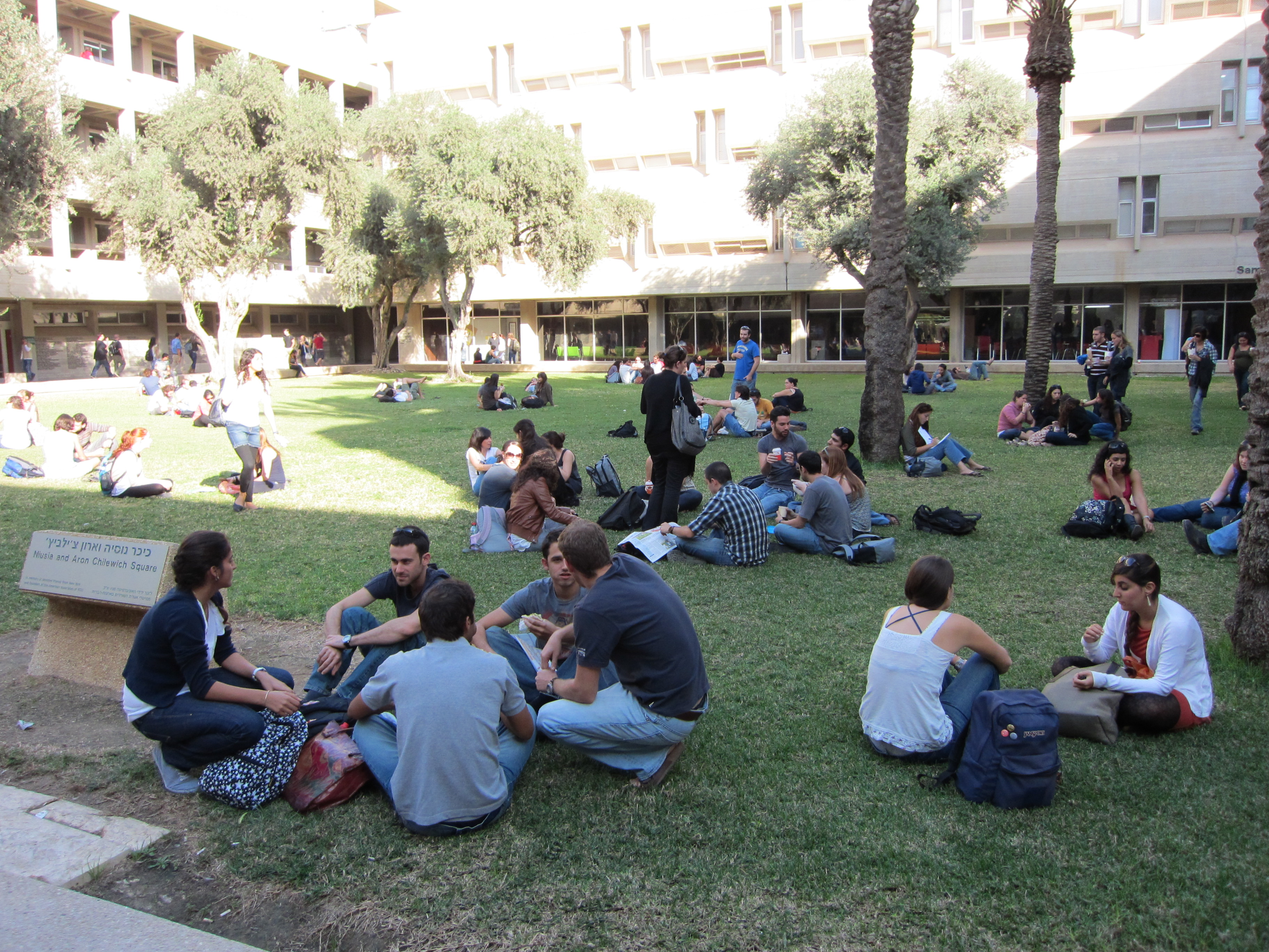 Ben Gurion University of the Negev (Photo: David Saranga)